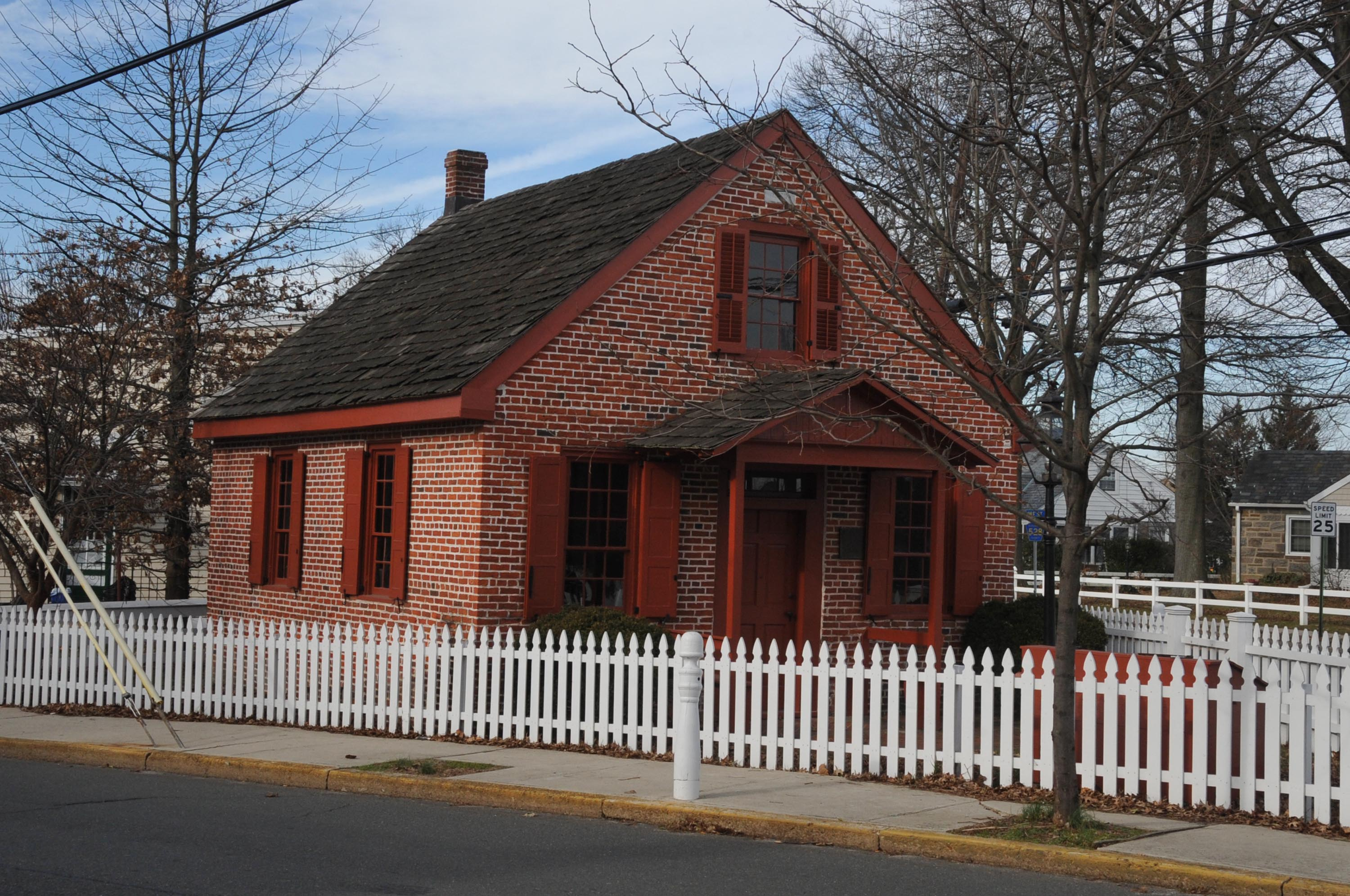 CLARA BARTON SCHOOL; ESTABLISHED IN 1852 AS ONE OF THE EARLIEST FREE SCHOOLS IN NEW JERSEY